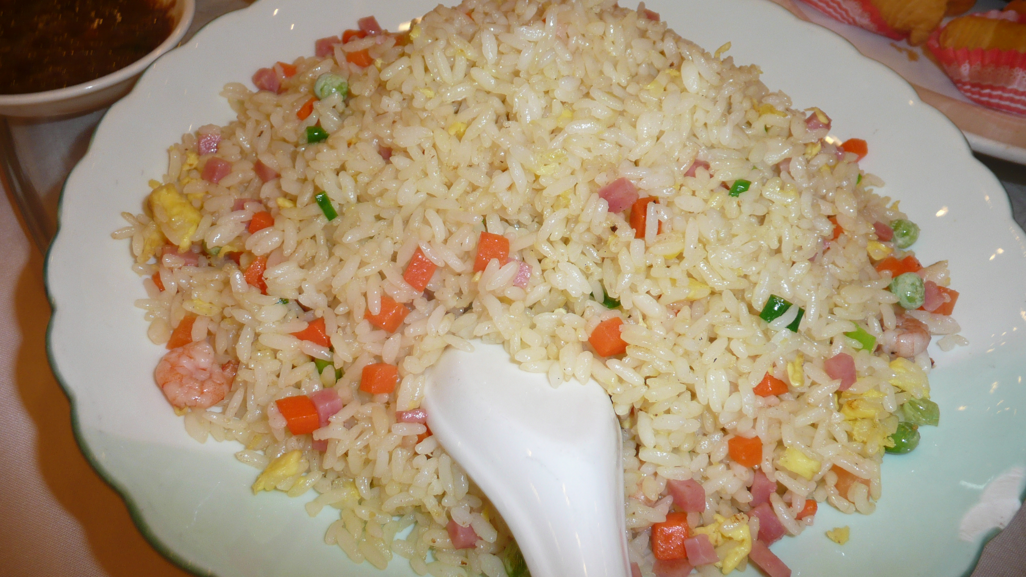 Cuisine of China, Shenzhen, Guangdong